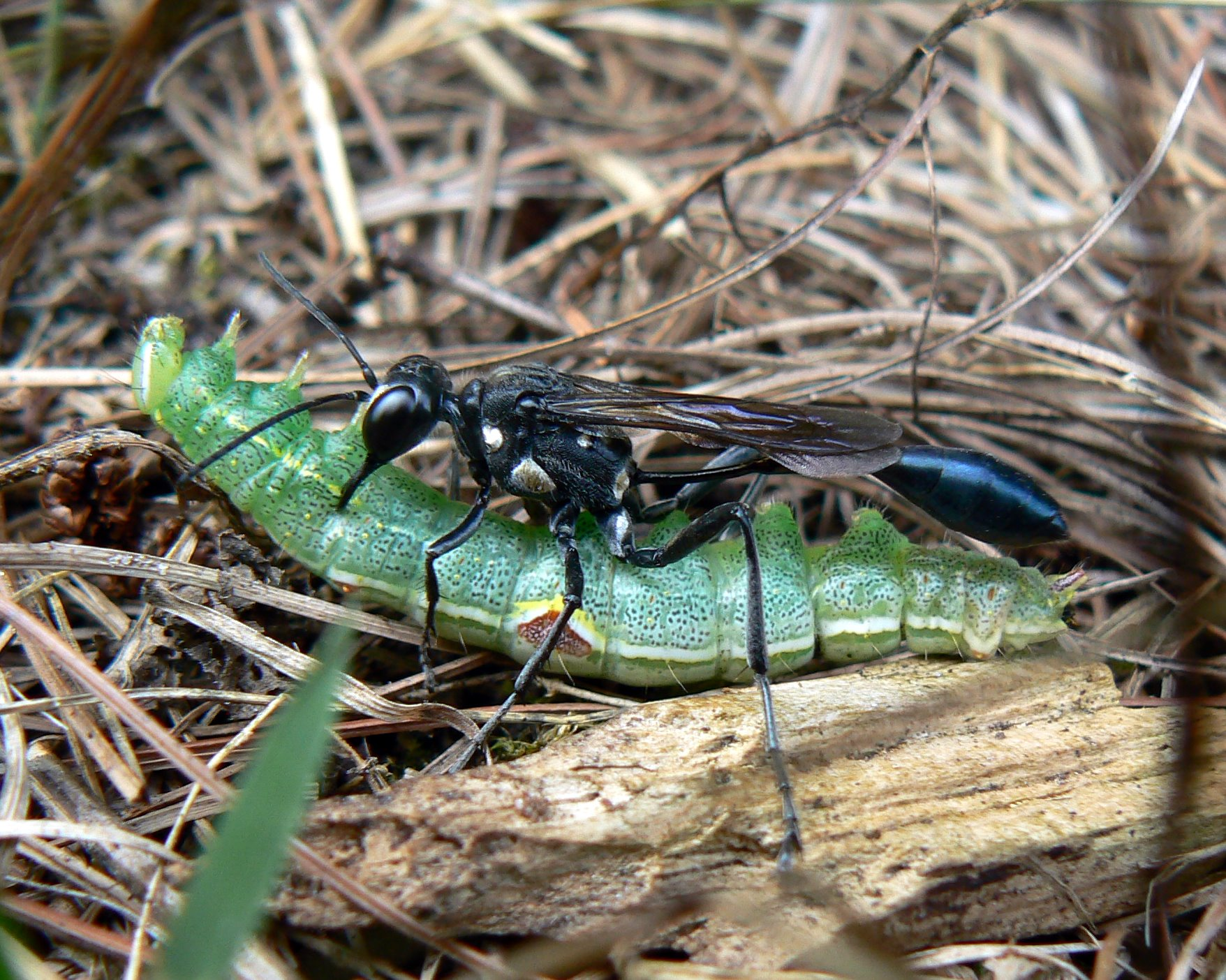 Eremnophila aureonotata Looking it up, the wasp looks like Eremnophila aureonotata, distinctive with those silver spots. The caterpillar is probably a type of Prominent Moth, family Notodontidae frequent prey for these wasps.